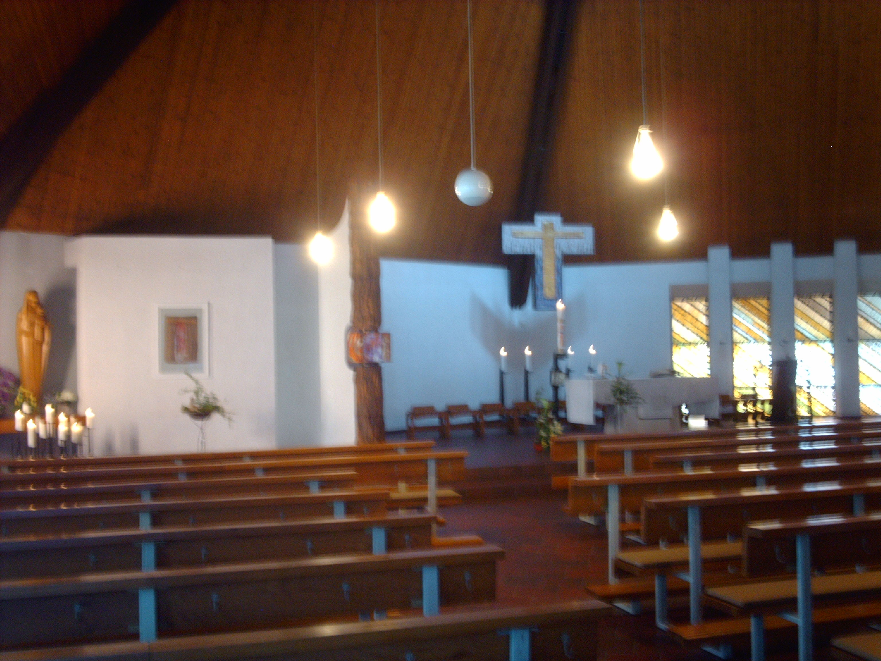 Interior of St. Joseph church in Ilmenau